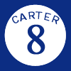 Gary Carter's Retired #8 with the Montreal Expos.